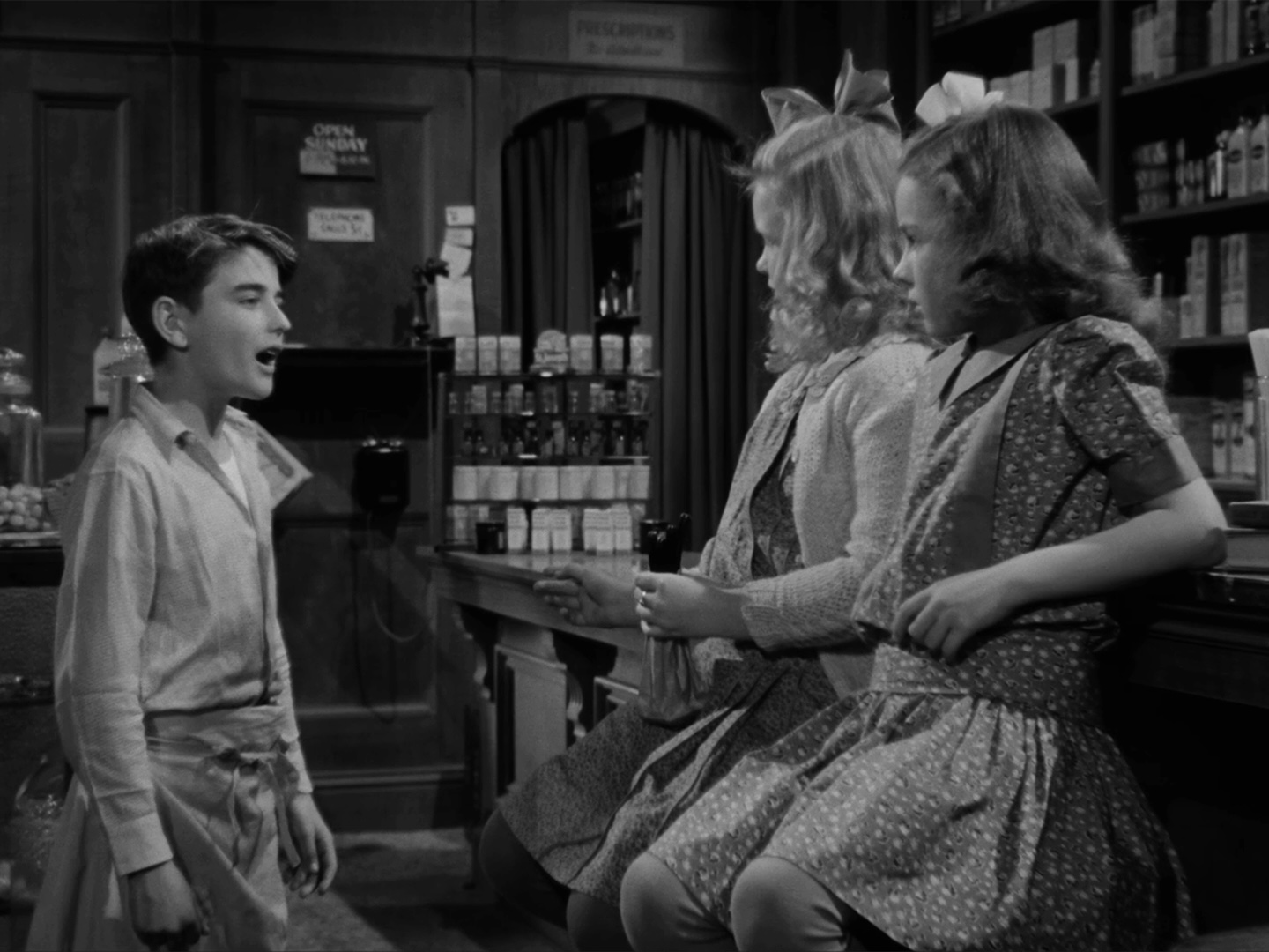 picture from movie It's a Wonderful Life George with Mary and Violet